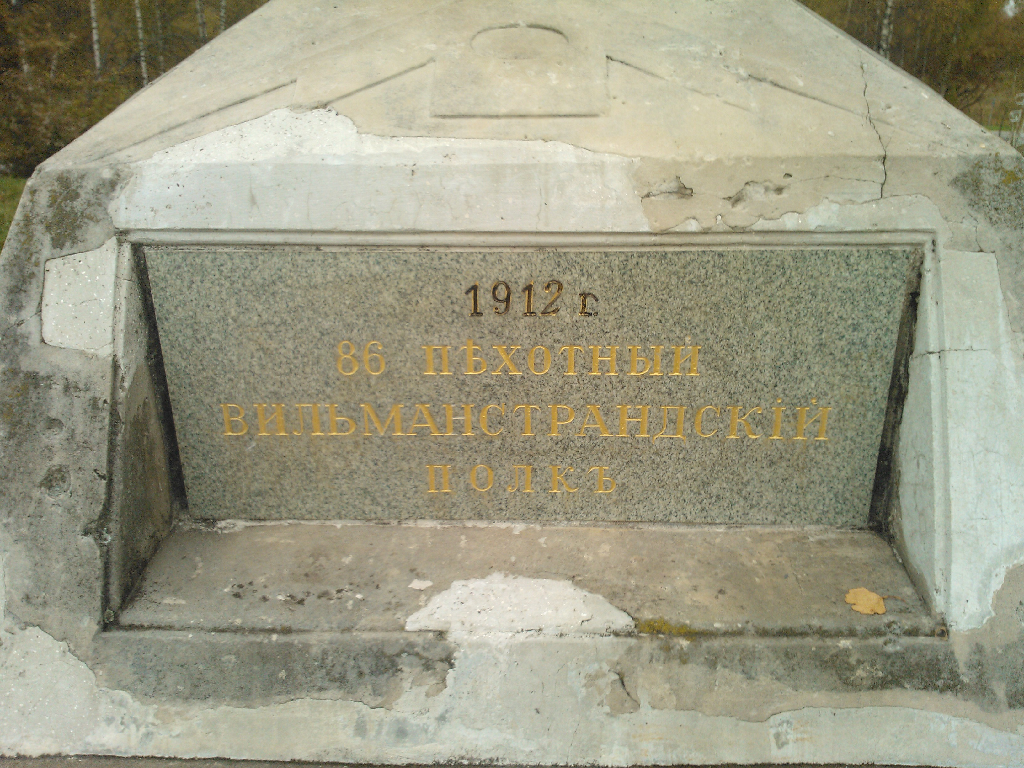 Villmanstrads Regimet respected at the year 1912 (one hundred yeas after the battle of Borodino) the heroes of its own Regiment